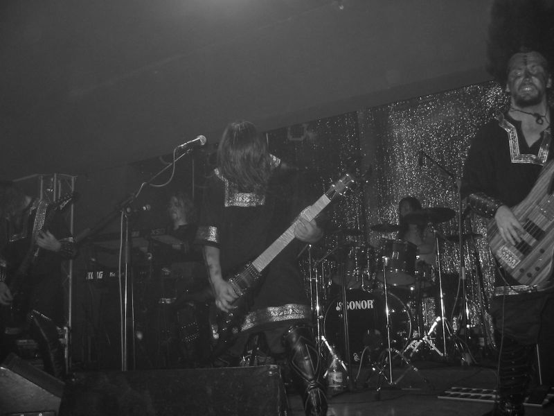 Nokturnal Mortum live.